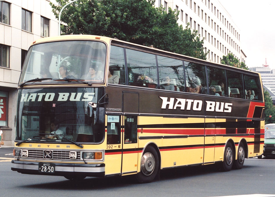 Kässbohrer Setra S 216 HDS coach in Japan. Hato Bus operator.